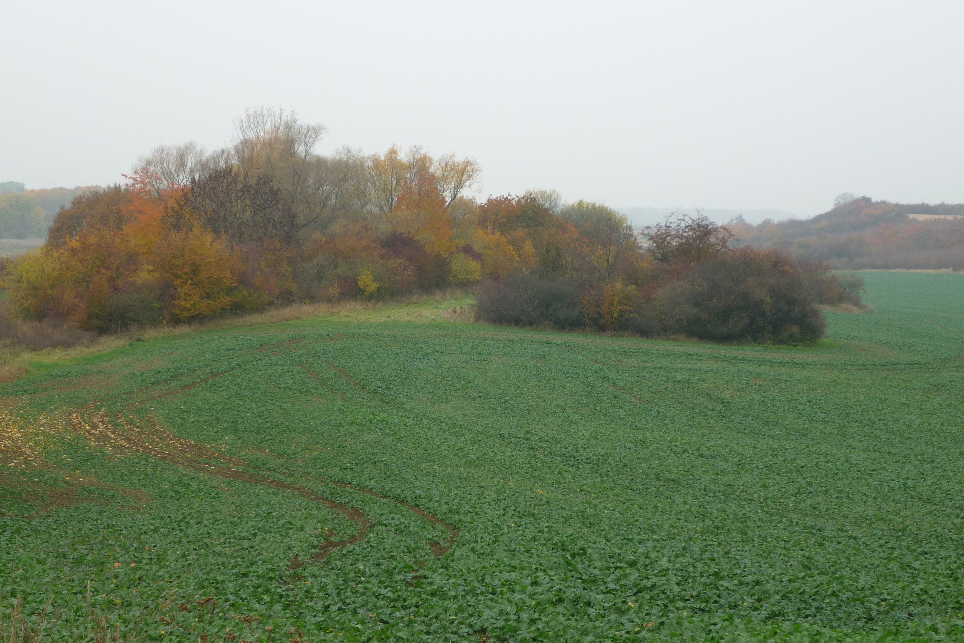 Stone guarry near Starkoc in natural monument Starkočský lom in Kutná Hora District, Czech Republic